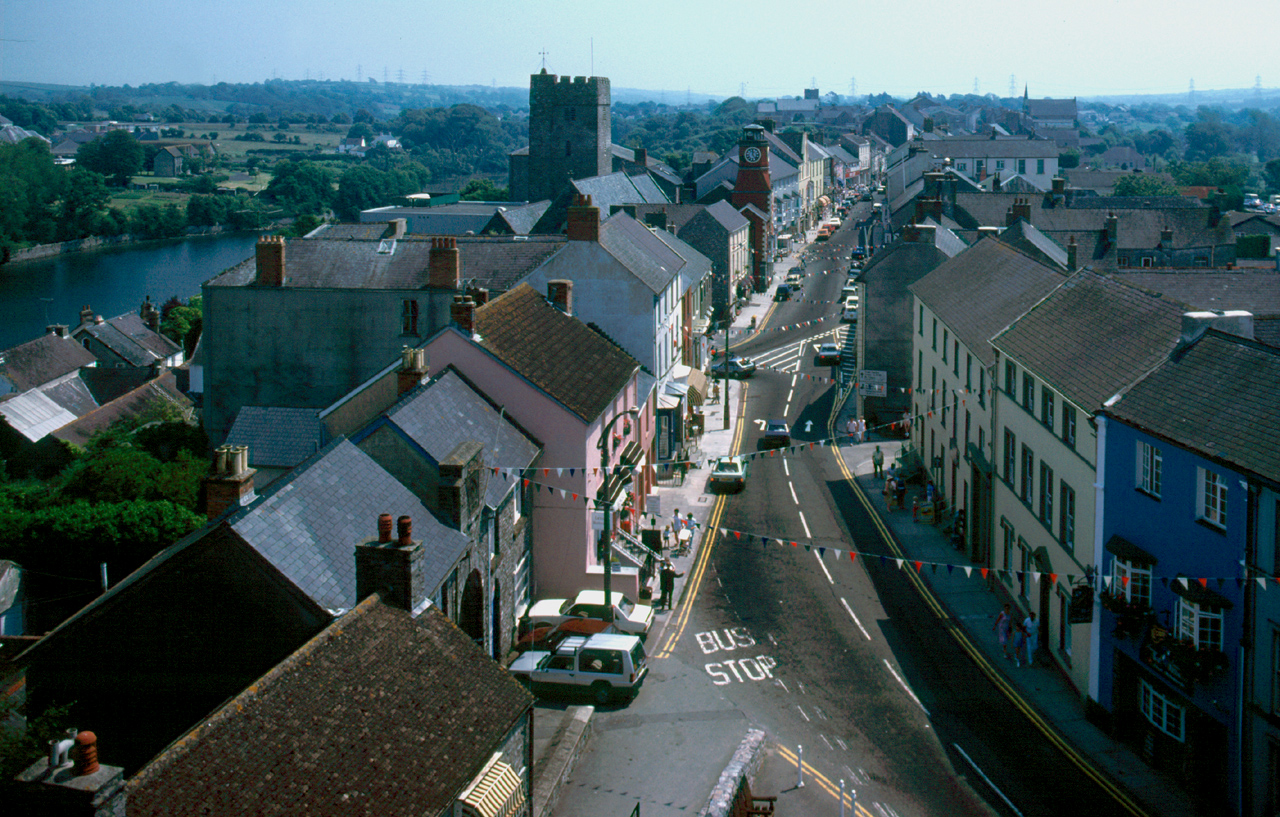 Village of Pembroke, located opposite the village of Milford in South Wales/GB, seen from Pembroke Castle